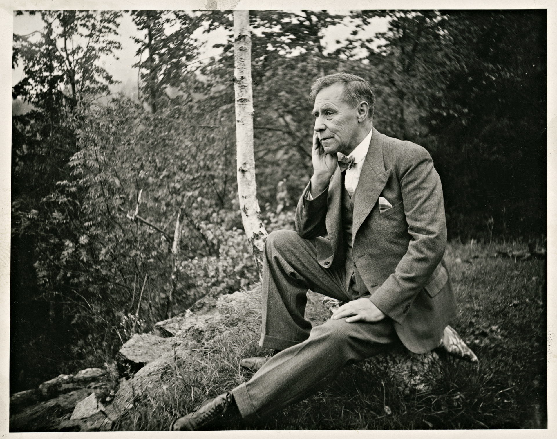 Tittel / Title: Portrett av Olav Duun (1876-1939) Dato / Date: ukjent / unknown Fotograf / Photographer: ukjent / unknown Eier / Owner Institution: Nasjonalbiblioteket / National Library of Norway Lenke / Link: Bildesignatur / Image Number: blds_02076